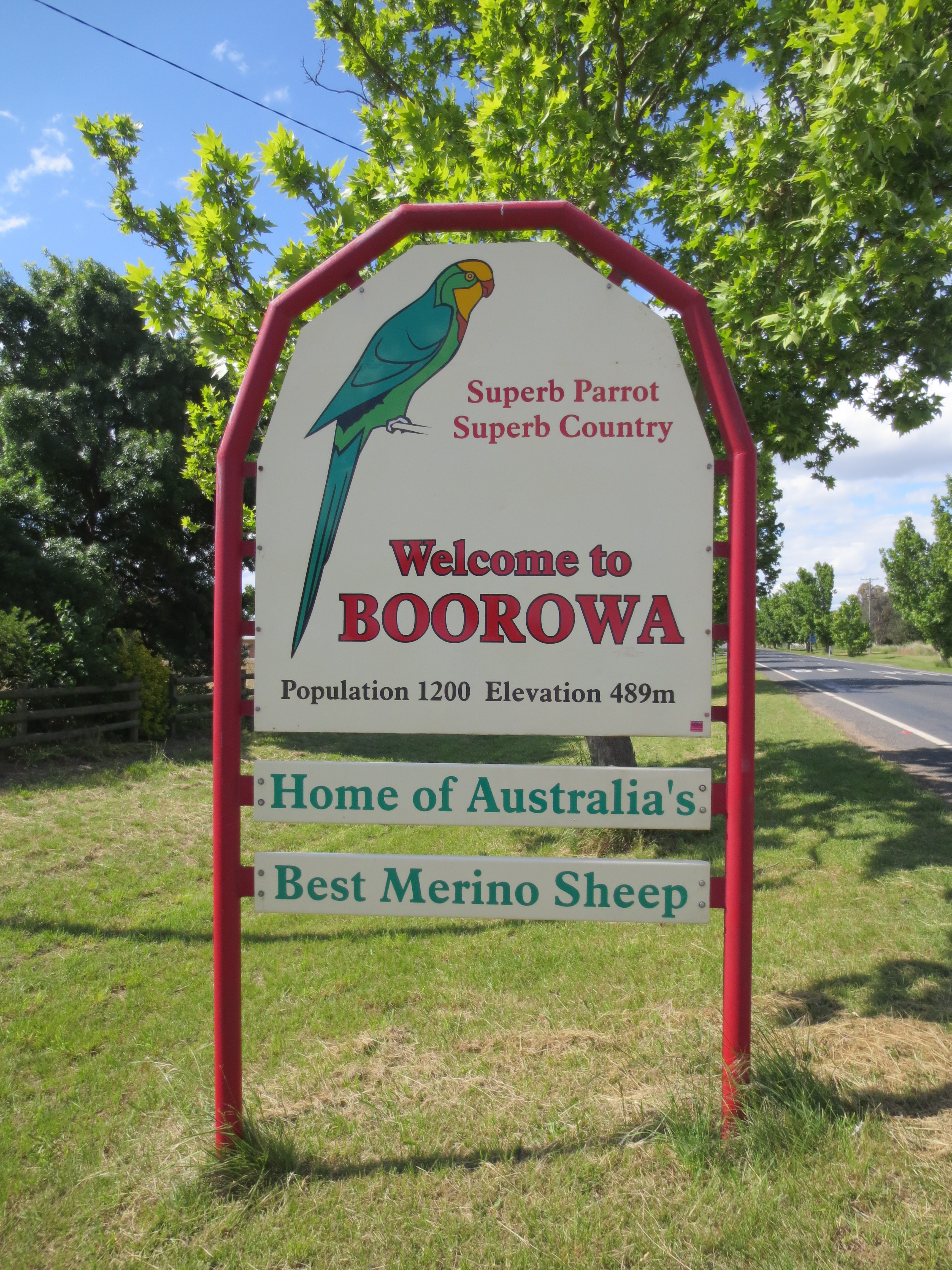 Boroowa welcome signage on Lachlan Valley Way showing Superb Parrot